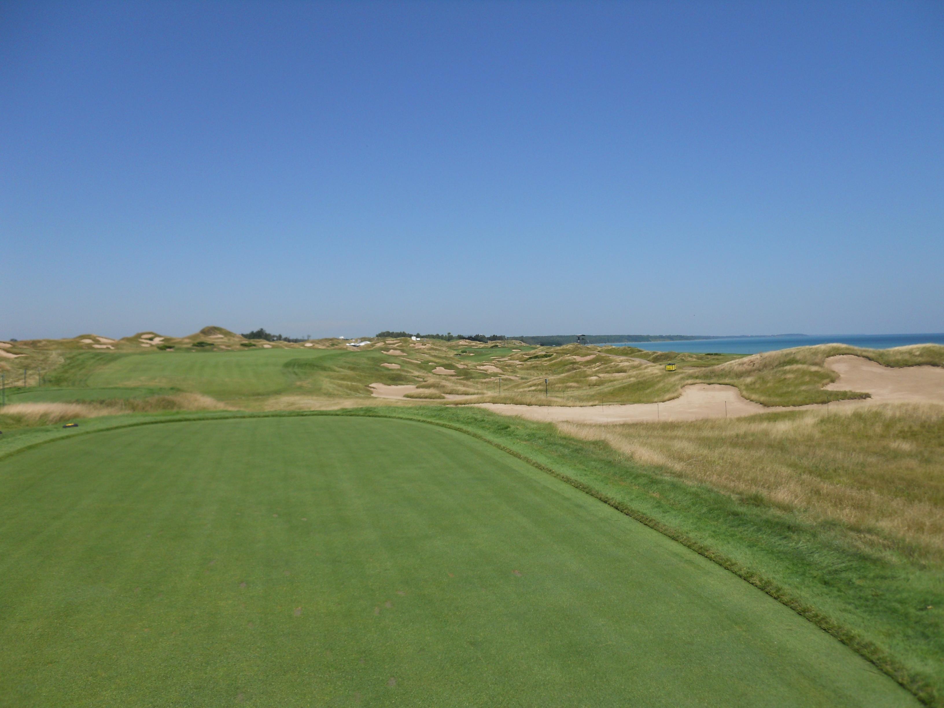 Number 11 Straits.